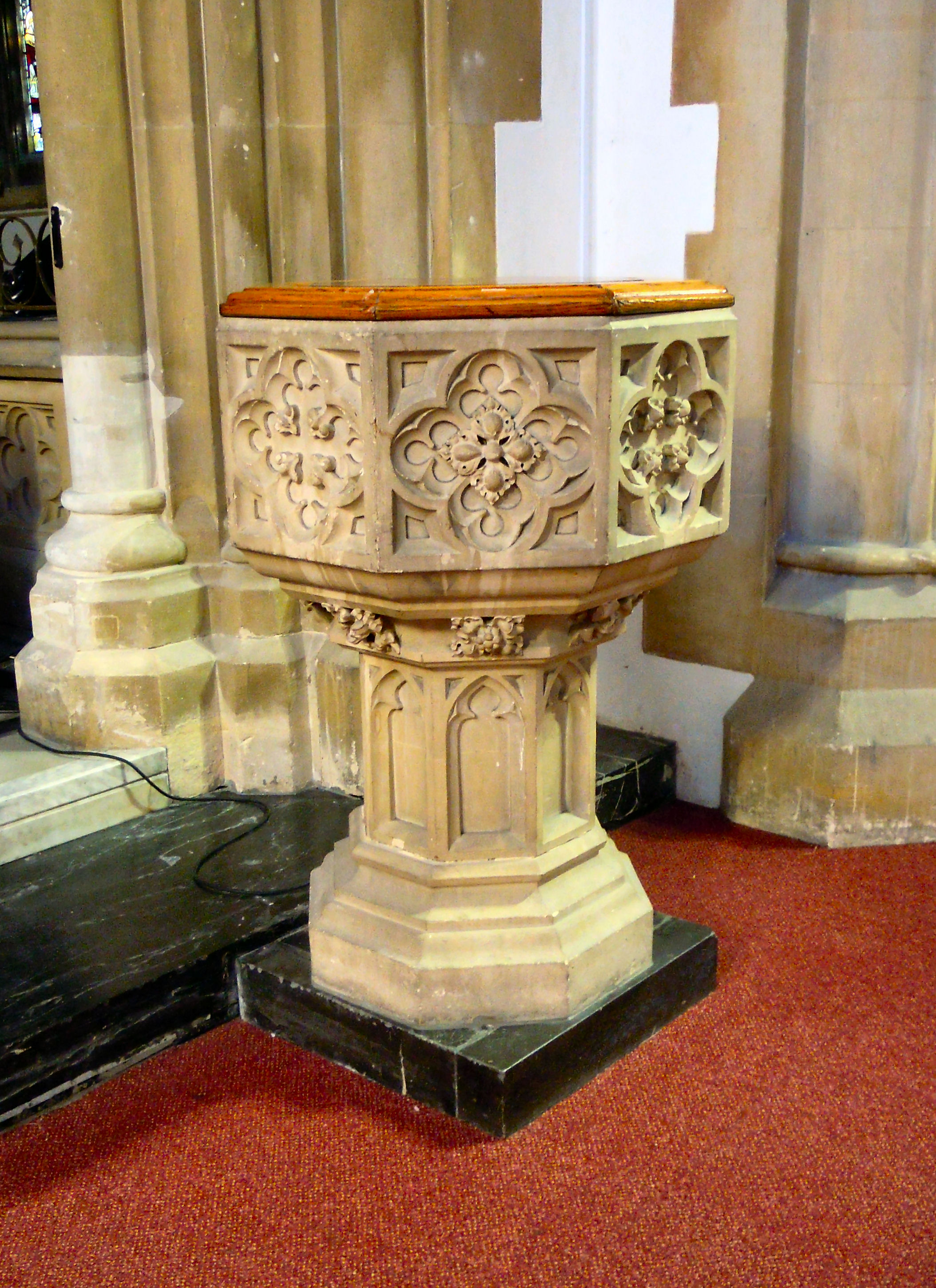 The baptismal font in Holy Trinity Church in Barnstaple in Devon